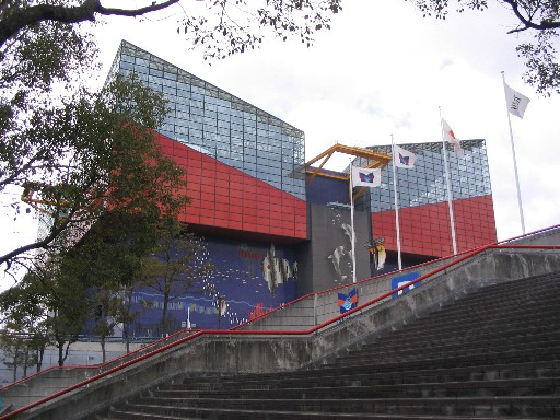 Osaka Aquarium Kaiyukan